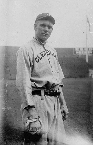 Bain News Service,, publisher. [Norman "Nick" Cullop, Cleveland AL, at Polo Grounds, NY (baseball)] [1913] 1 negative : glass ; 5 x 7 in. or smaller. Notes: Original data provided by the Bain News Service on the negatives or caption cards: Cullop, Cleve. Corrected title and date based on research by the Pictorial History Committee, Society for American Baseball Research, 2006. Forms part of: George Grantham Bain Collection (Library of Congress). Format: Glass negatives. Repository: Library of Congress, Prints and Photographs Division, Washington, D.C. 20540 USA, General information about the Bain Collection is available at Persistent URL: Call Number: LC-B2- 2818-8